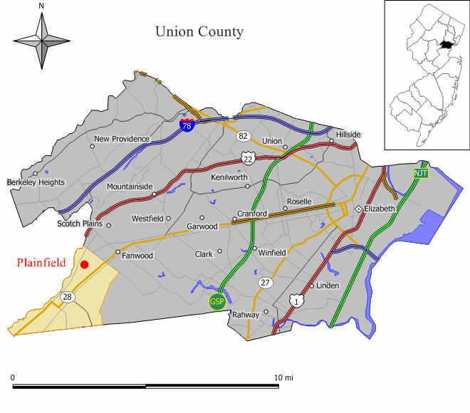 Source: Jim Irwin Original work by Jim Irwin, December 2005.